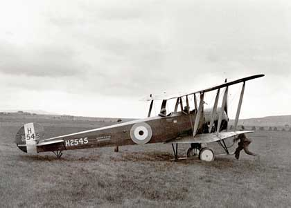 The first aeroplane in Iceland, an AVRO 504K, originally owned by the British Royal Air Force and still carrying its RAF registration number, H2545.